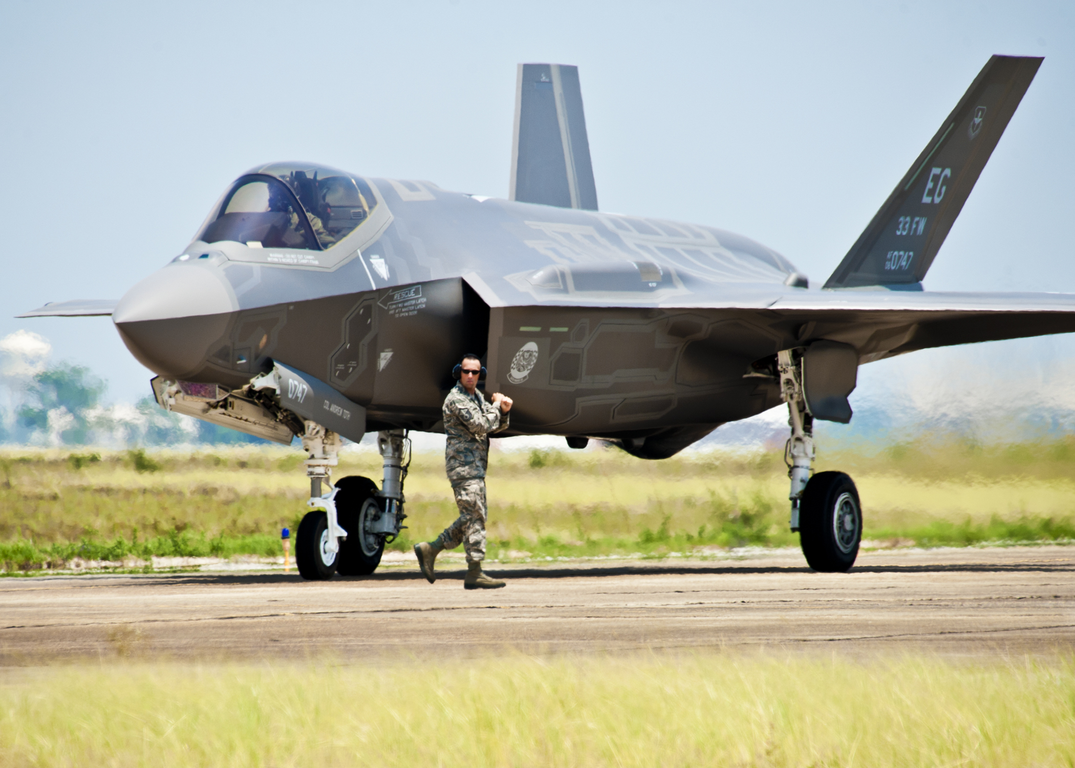 A 33rd Fighter Wing aircraft maintainer moves by the Department of Defense's newest aircraft, the U.S. Air Force F-35 Lightning II joint strike fighter (JSF), before giving the pilot the order to taxi the aircraft at Eglin Air Force Base, Fla., July 14, 2011. This marks the first JSF aircraft to arrive to its new home at Eglin.